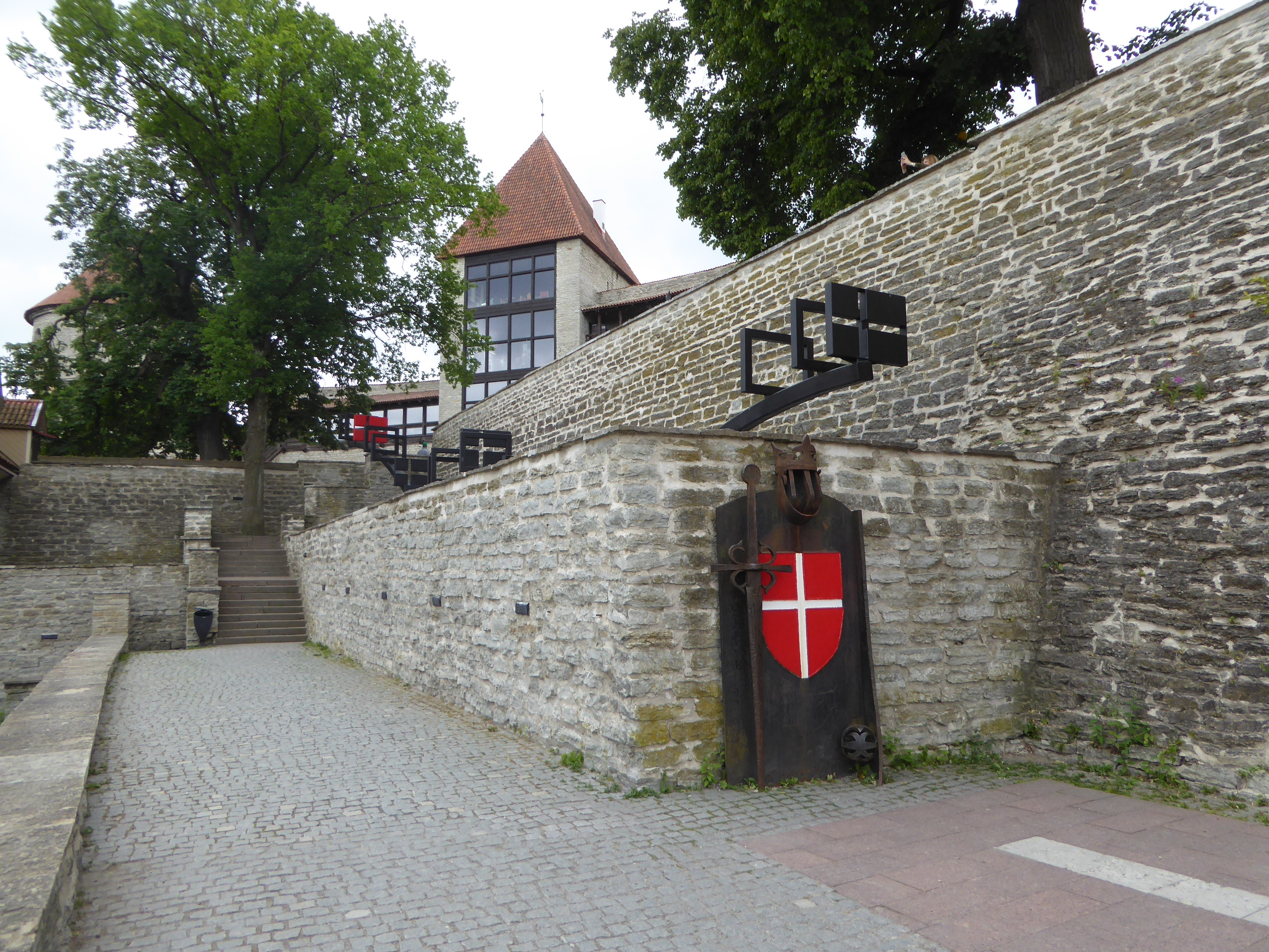 Memorial at Taani Kuninga Aed (Danish King's Garden) in Tallinn. According to a legend the Danish flag Dannebrog fell down the heaven here during a battle between the Danes and the Estonians in 1219.